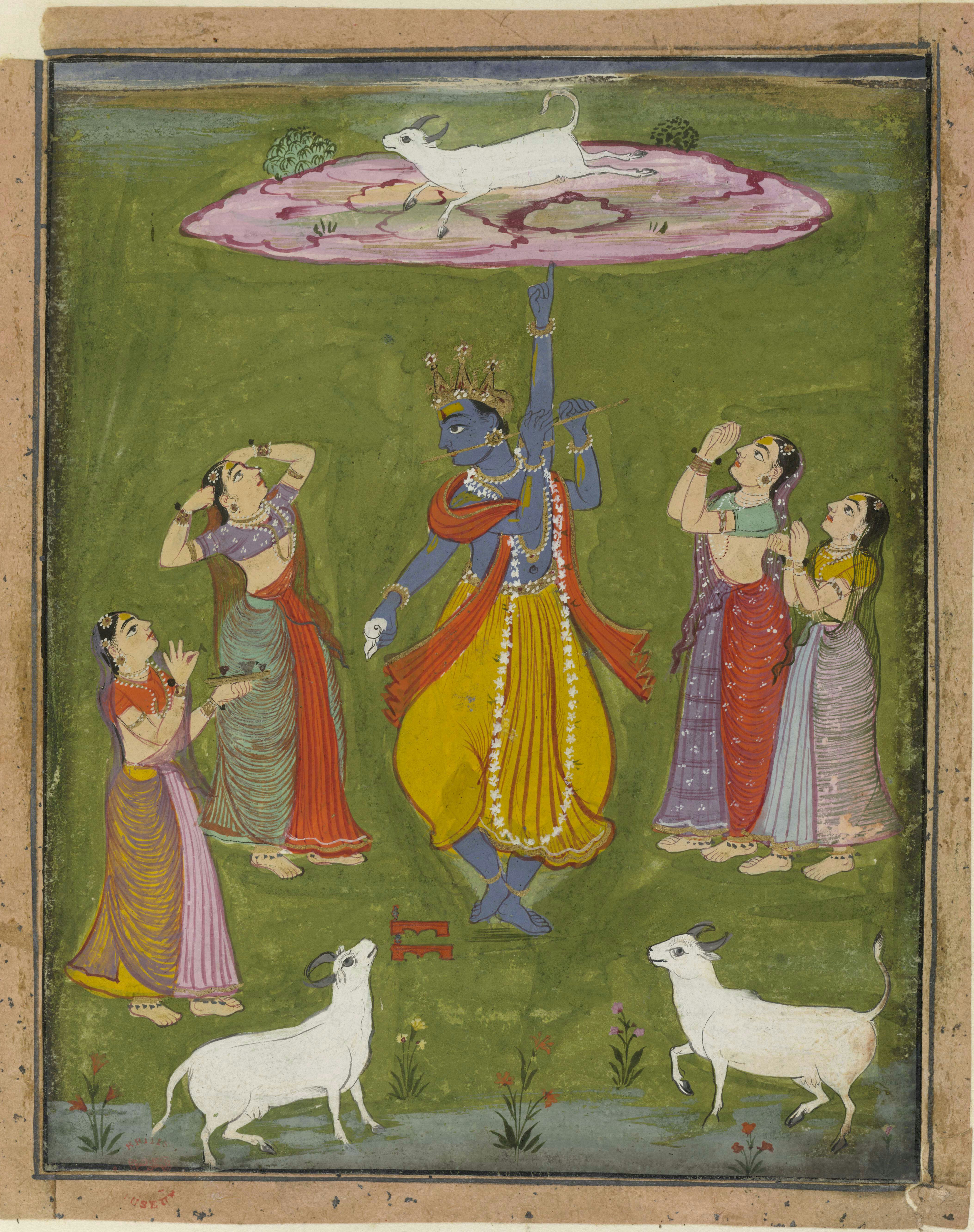 Album leaf (recto); painting. Deity. Viṣṇu as Kṛṣṇa Govardhanadhara with attendants. Painted on paper.